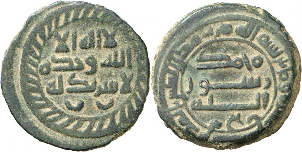 Copper Coin, Abbasid Caliphate. temp. Al-Ma'mun. AH 199-218 / AD 813-833. Æ Fals, al-Quds (Jerusalem) mint. Dated AH 217 (AD 832/3). Stephan Album No 291